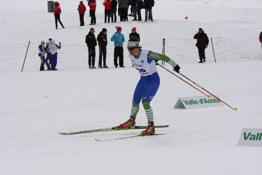 Andreja Mali at the 2010 Winter Military World Games